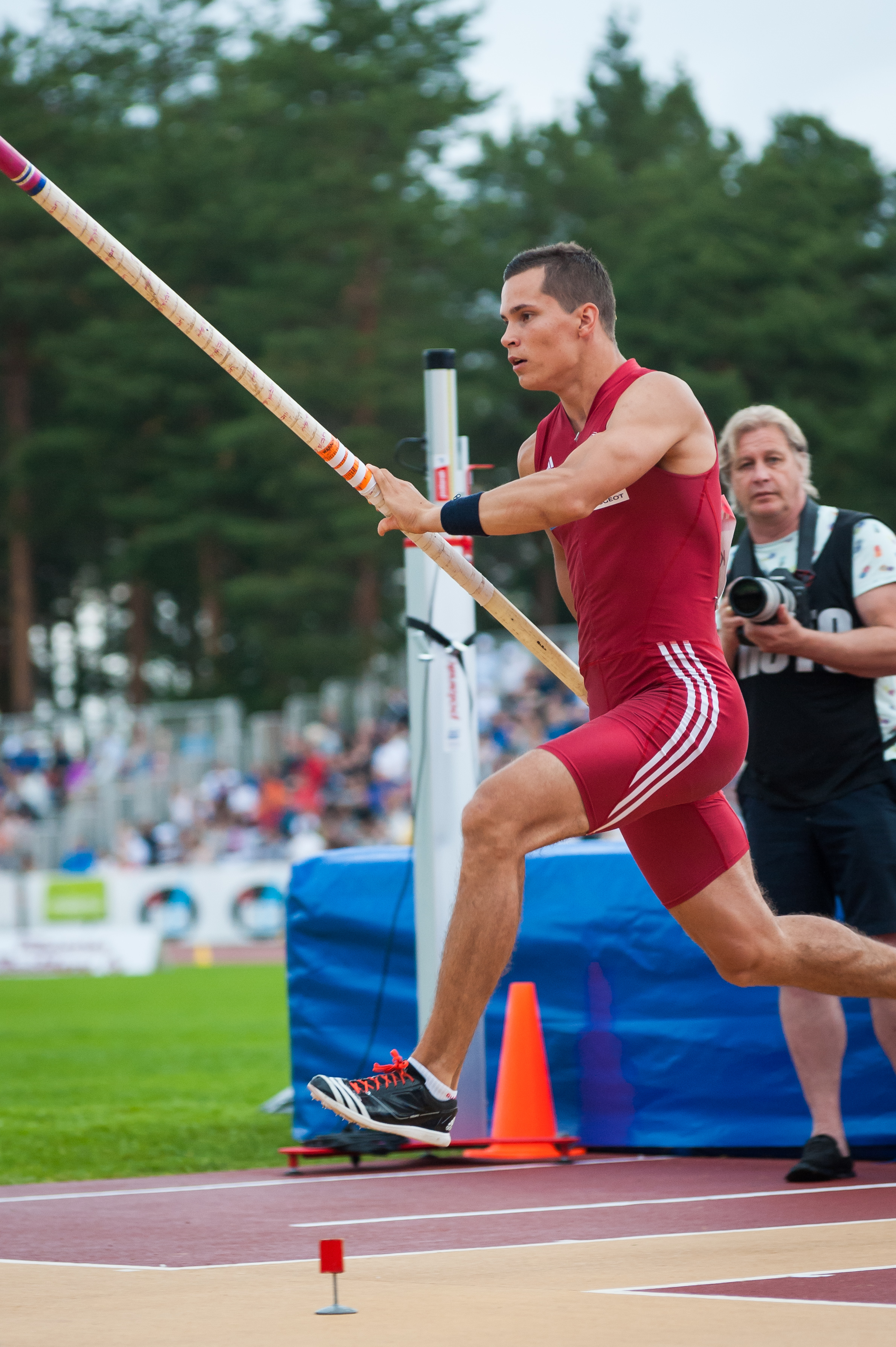 Men's pole vault competition at the 2018 Kalevan Kisat, the Finnish championships in athletics, in Jyväskylä, Finland.